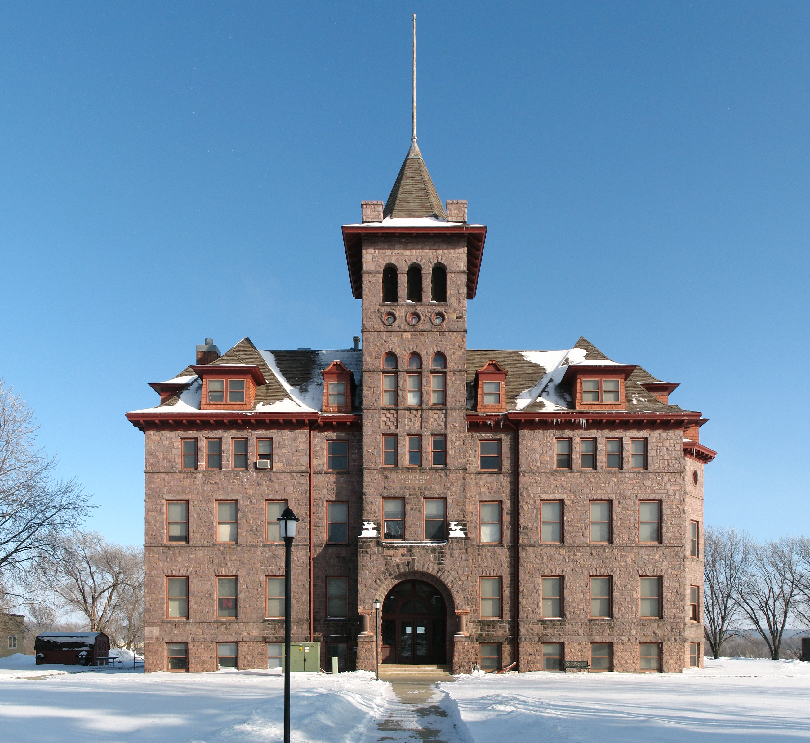 The Old Main building on the old Augustana campus in Canton, South Dakota. It was originally part of Augustana College before the college moved to nearby Sioux Falls, South Dakota. It was then the Augustana Academy until it closed in 1971. It was added to the National Register of Historic Places in 1985. This image was created with Hugin.